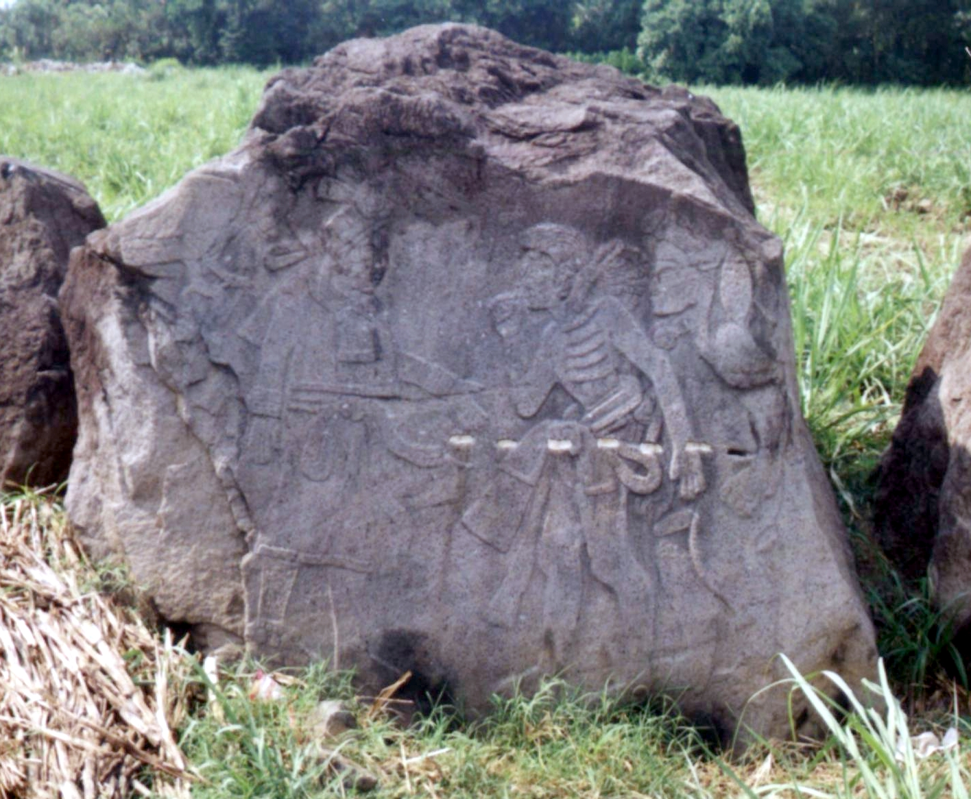 Monument 19 at Bilbao, near Santa Lucia Cotzumalguapa, Escuintla, Guatemala. The dotted line across the sculputre marks damage caused by an attempt to loot it.